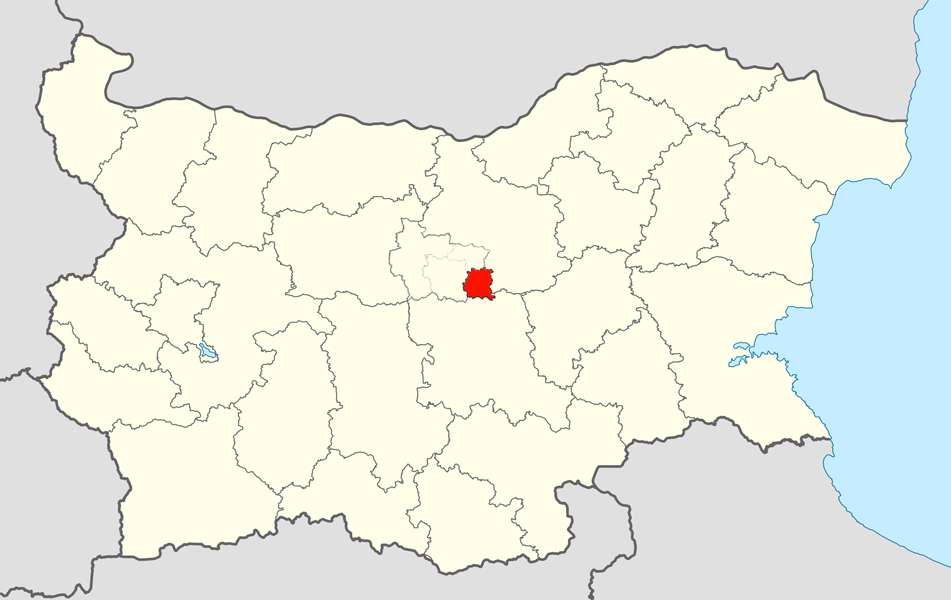 Location map of Tryavna Municipality within Gabrovo Province, Bulgaria. Equirectangular projection, N/S stretching 130 %. Geographic limits of the map: N: 44.4° N S: 41.1° N W: 22.1° E E: 28.9° E